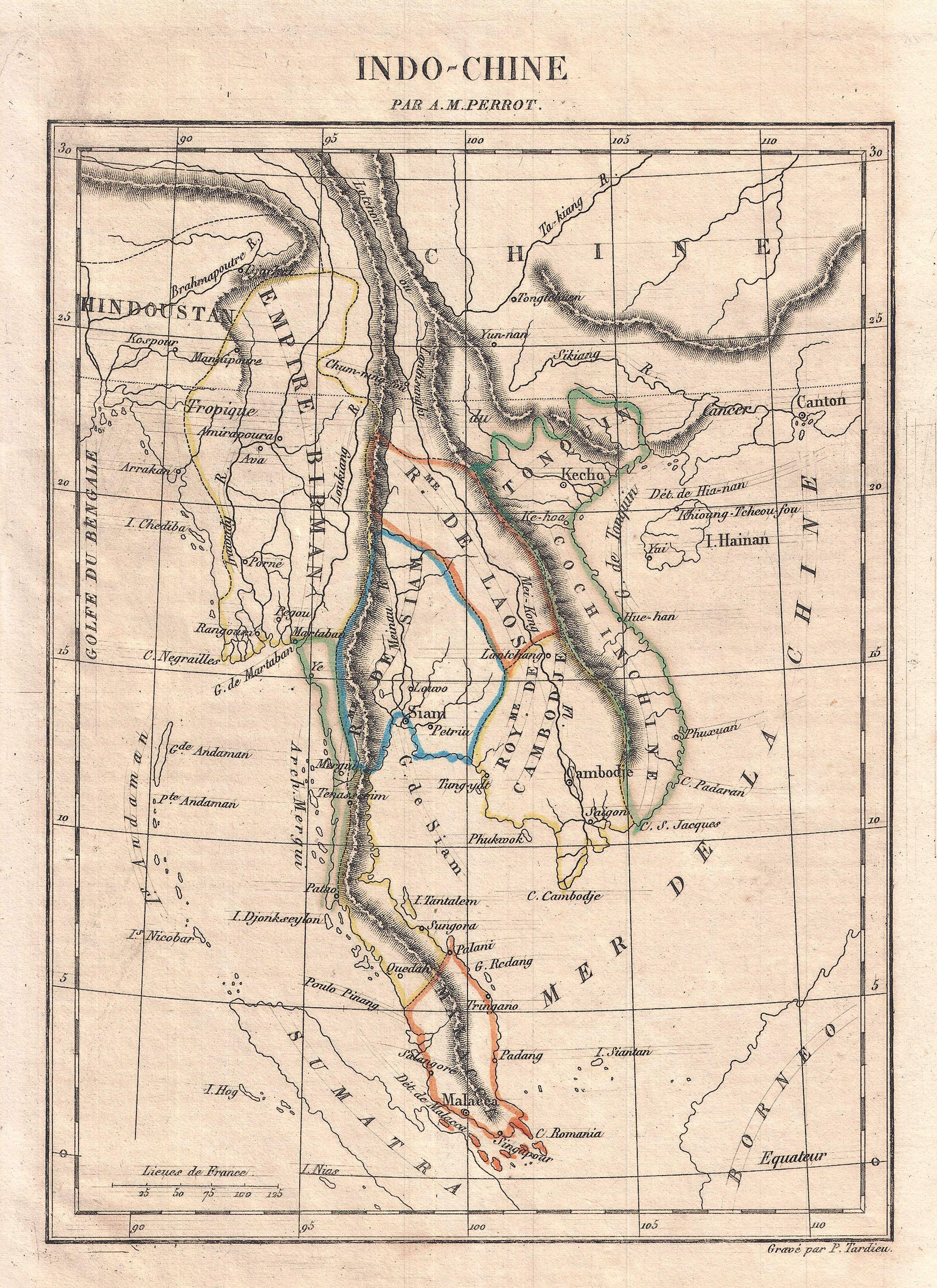 This is a c. 1825 map of Indo-Chine by drawn by French cartographer Aristide Michel Perrot and engraved by P. Tardieu. Covers the area from China in the north to Sumatra in the south, and from the Gulf of Bengal in the west to Canton in the east. Curiously places the city of Singapore (Singapour) on the mainland. Countries and territories outlined in color. Names major cities, rivers, islands, gulfs, mountains and ports. Scale located in the lower left quadrant.